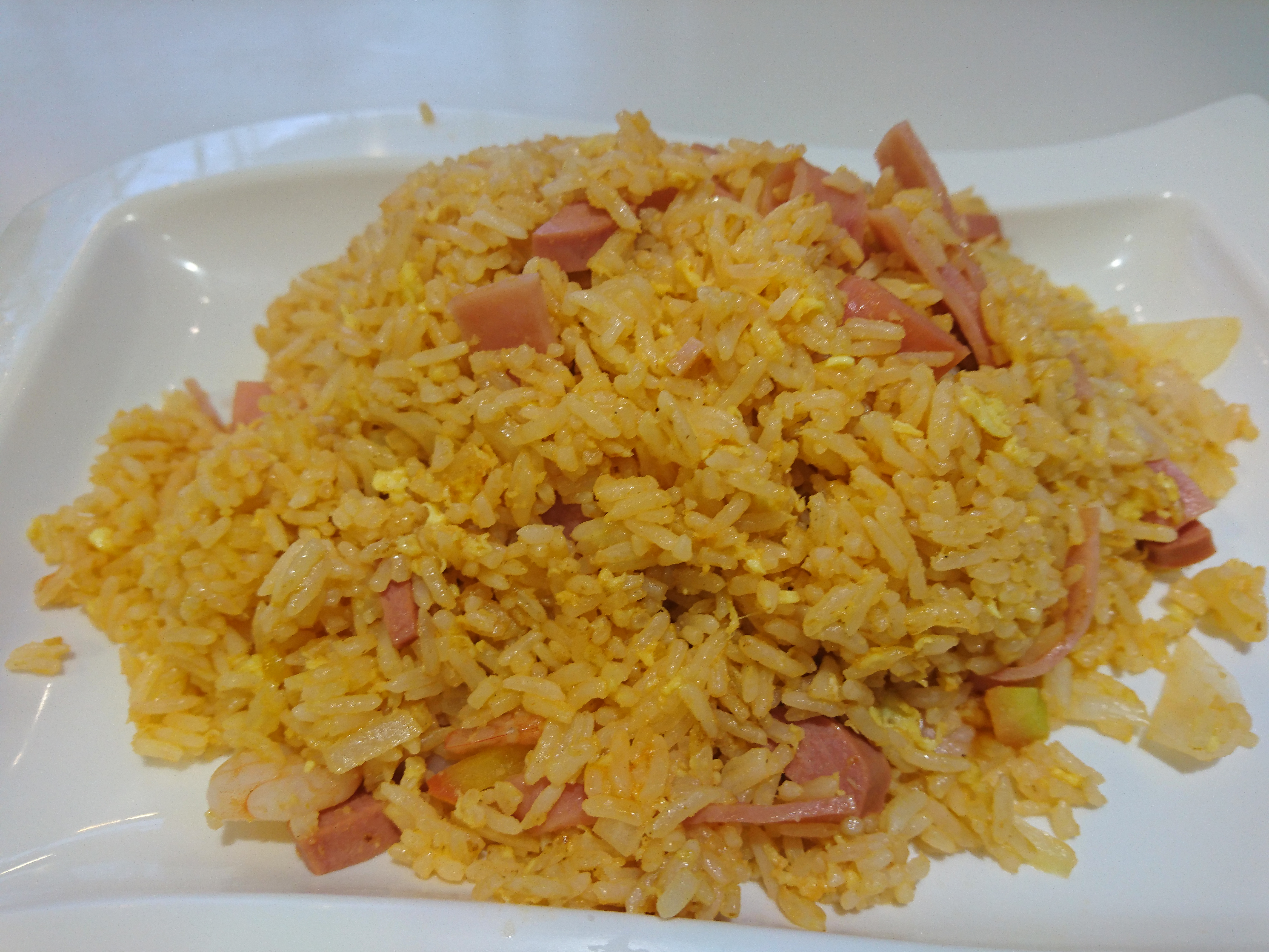 Western Fried Rice